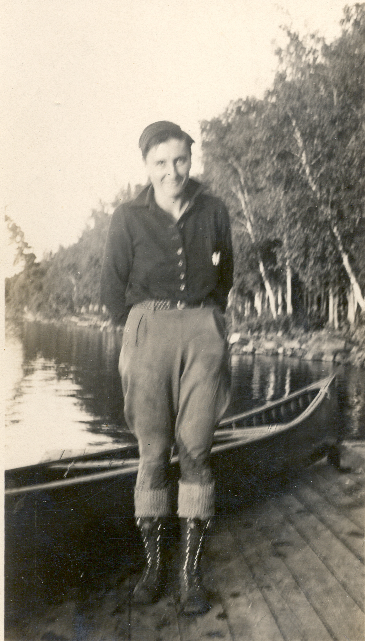 Miss Justine Spunner, August 20, 1932, at the dock at Gunflint Lodge. J Kerfoot Photos